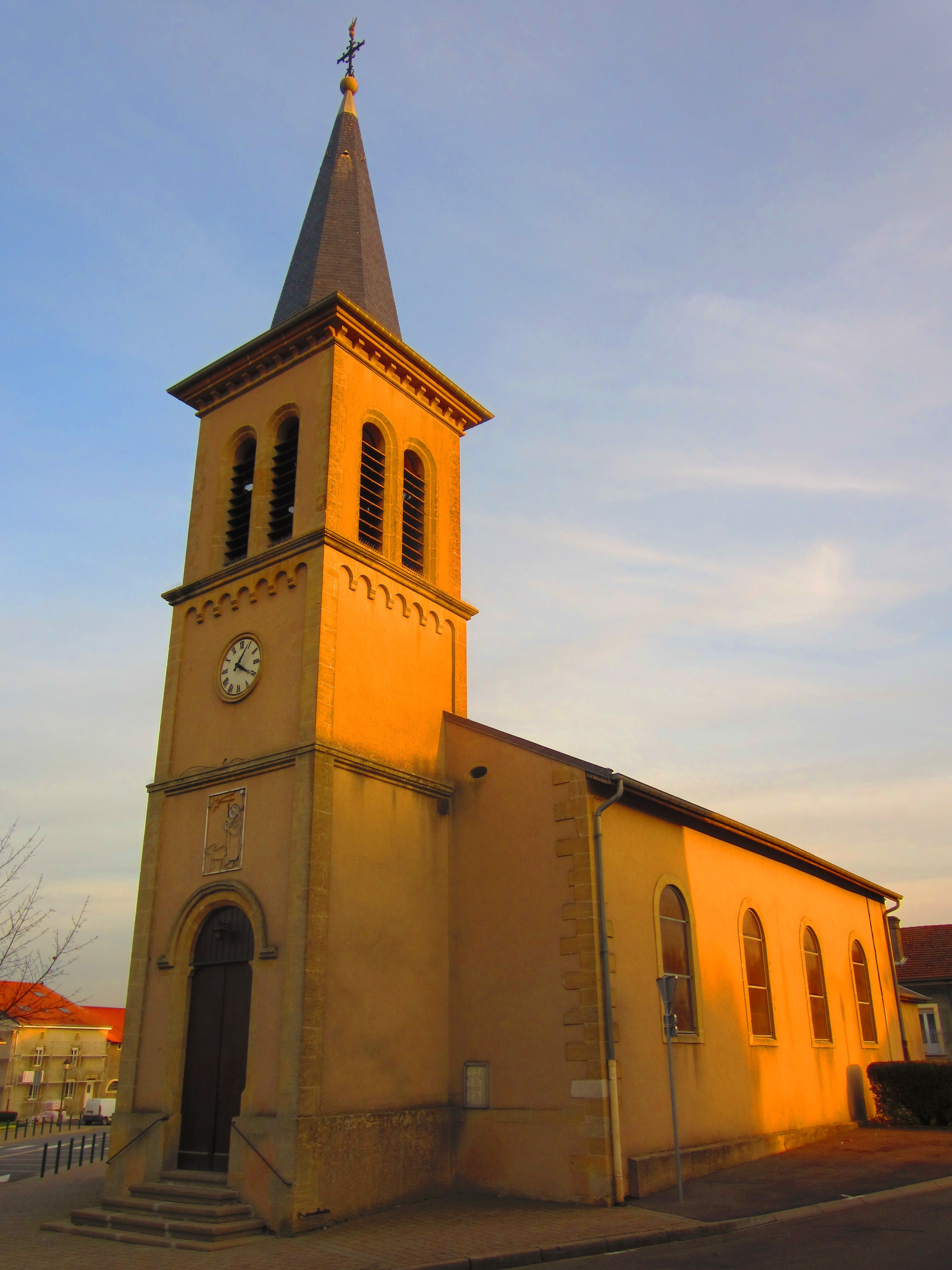 Description eglise Rurange Thionville Date23 November 2011Sourcemon appareil photoAuthorAimelaimePermission (Reusing this file) eglise Rurange Thionville